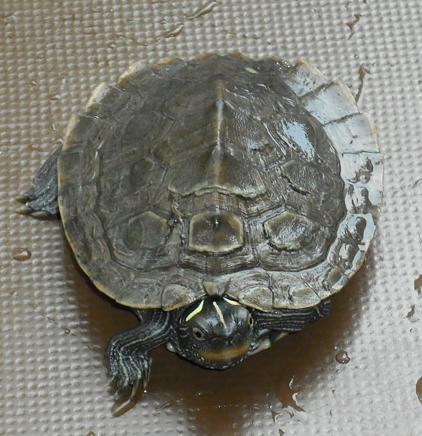 False map turtle